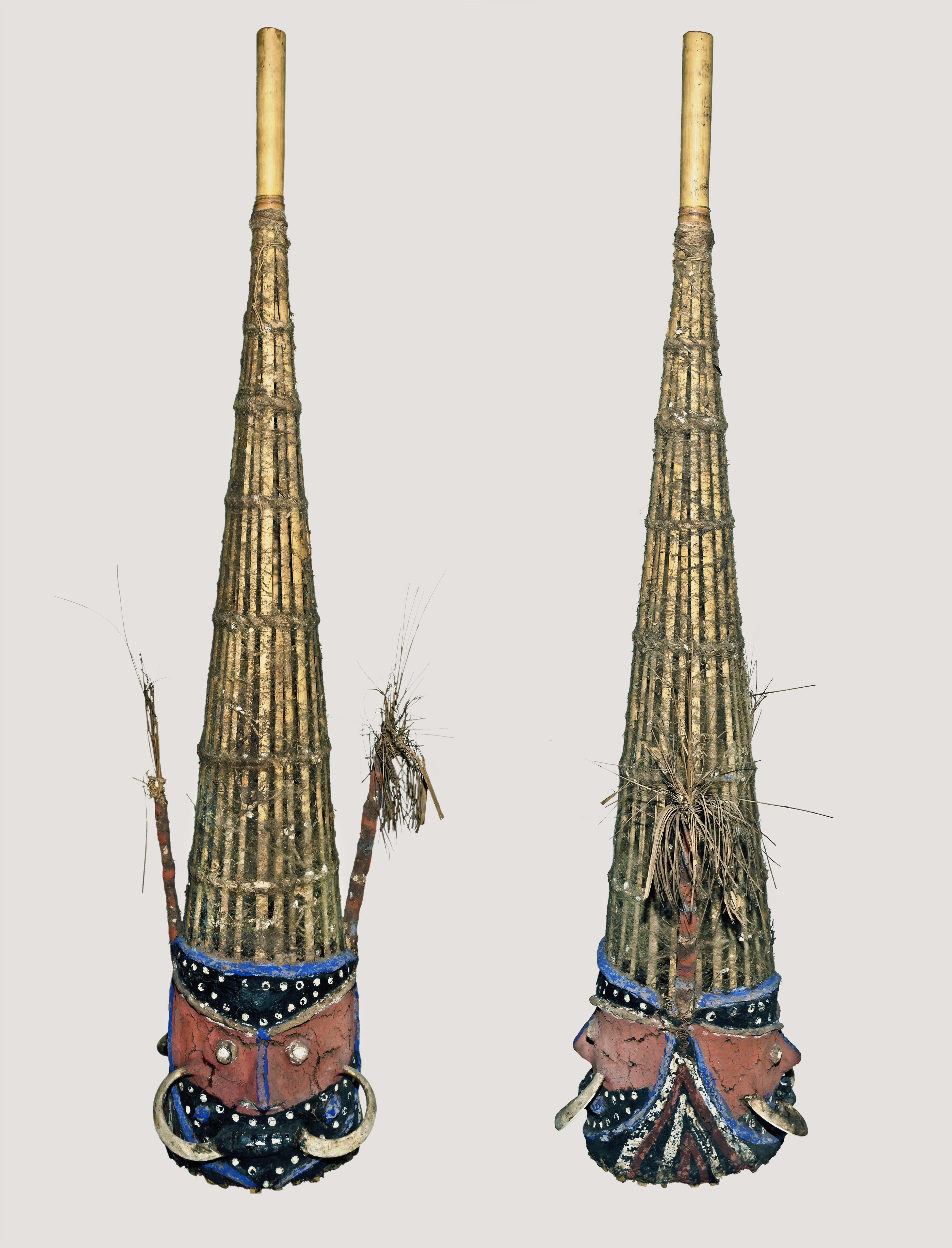 Mask ceremony of passing grades. In Malekula, ranks companies allow each individual to climb the ranks of the group. This mask depends on the secret community "Nalawan". The initiate first undergoes a period of seclusion to learn the dances and the manufacturing techniques of these figures. The last day of the festivities is forbidden to the uninitiated: the man dancing with the acquired mask indicating his rank. Two views of the same object. - two views of the same object Population : Vanuatu- Malakula island Date of collection: the nineteenth century (4th Quarter) - Former collection of Théophile Savès Materials: Reed, bamboo, rope, natural pigments, spider web, clay, boar's teeth (Sus scrofa). Size : 114 x 28 cm